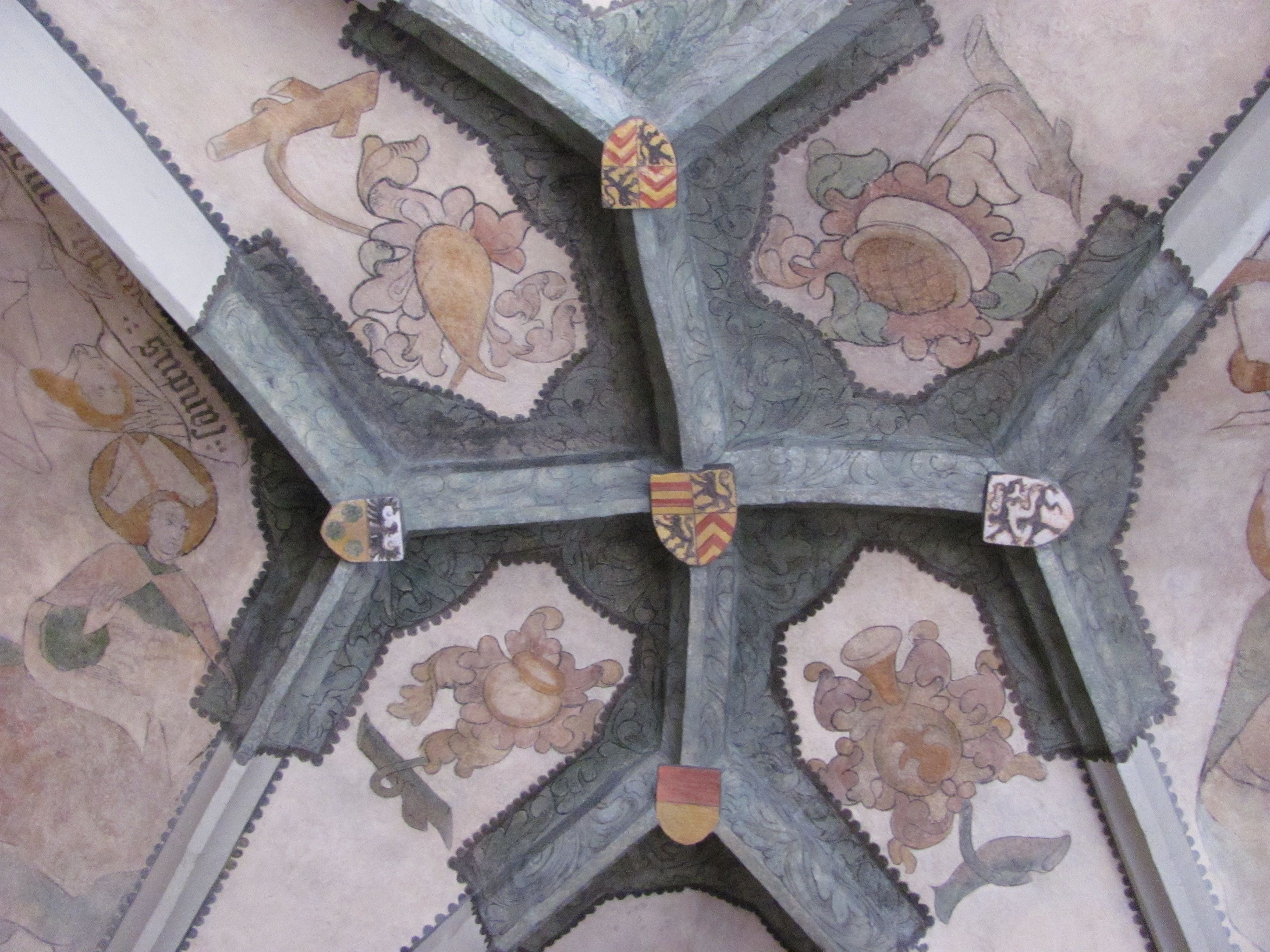 Stadtkirche Babenhausen (Hesse)